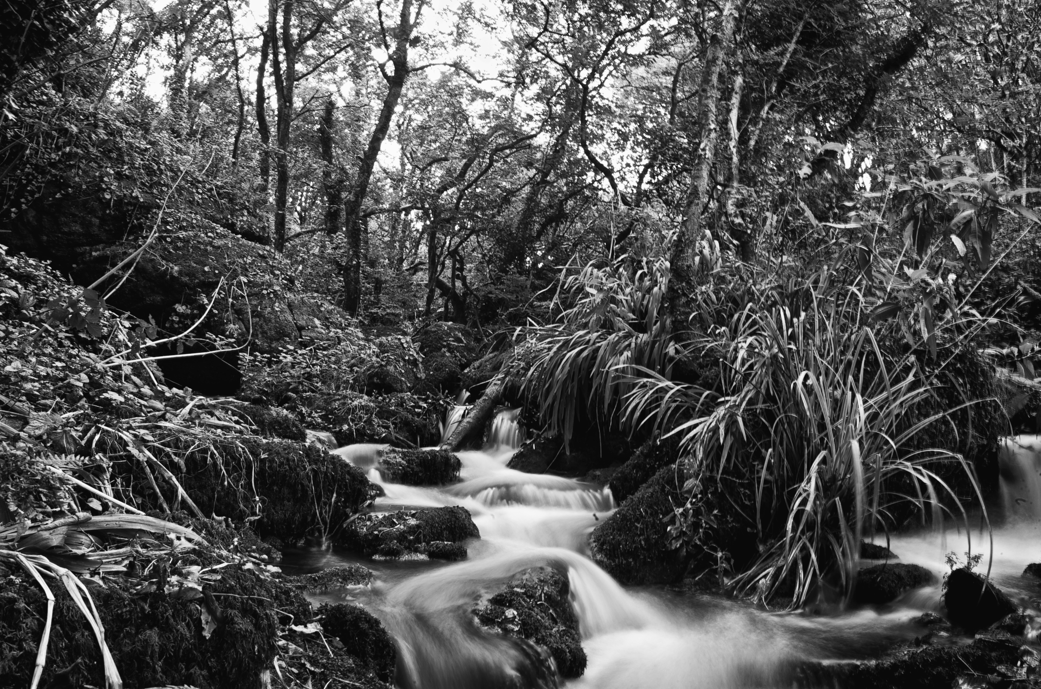 Lamorna Cove Cornwall B&W